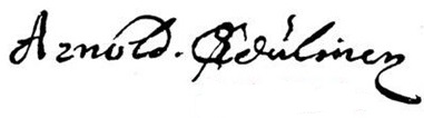 Arnold Geulincx signature